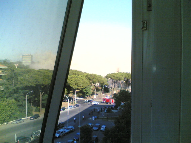 The destruction by implosion of the Olympic Velodrome in Rome, 24 July 2008